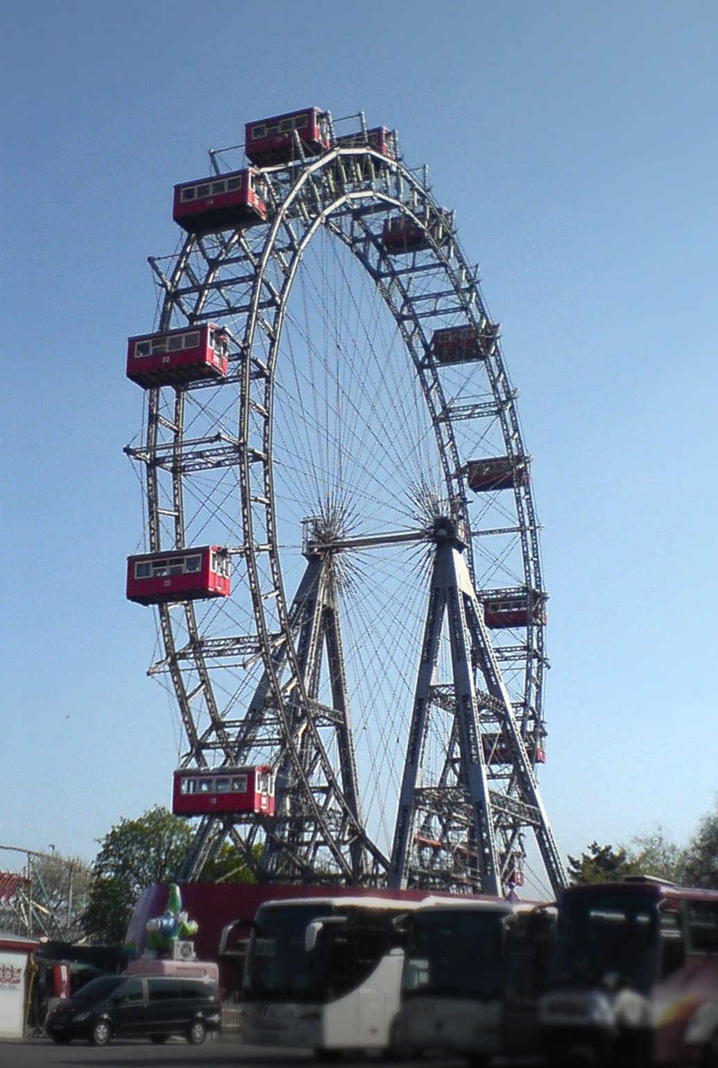 Austria, Vienna, Prater, Wiener Riesenrad